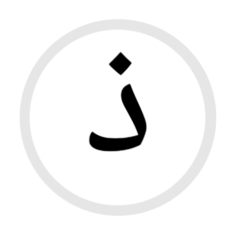 HS Letter (arabic alphabet)